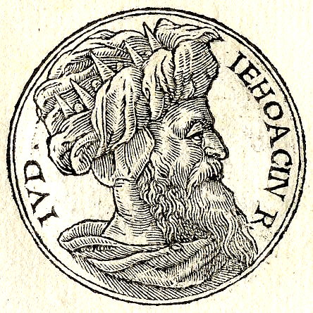 Jehoiachin-Jeconiah was a king of Judah. He was the son of Jehoiakim with Nehushta, the daughter of Elnathan of Jerusalem.